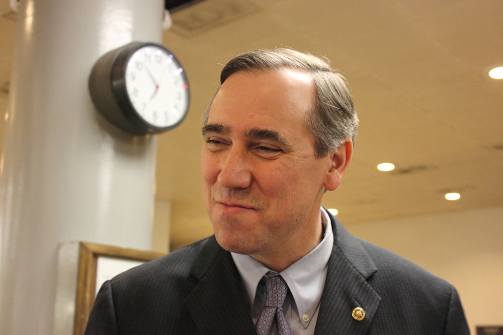 Sen. Jeff Merkley, D-Ore., and Sen. Mike Lee, R-Utah: "He and I have worked together on a variety of issues from Afghanistan to the Fifth and Sixth Amendments. We enjoy each other." (Shirley Li/Medill)